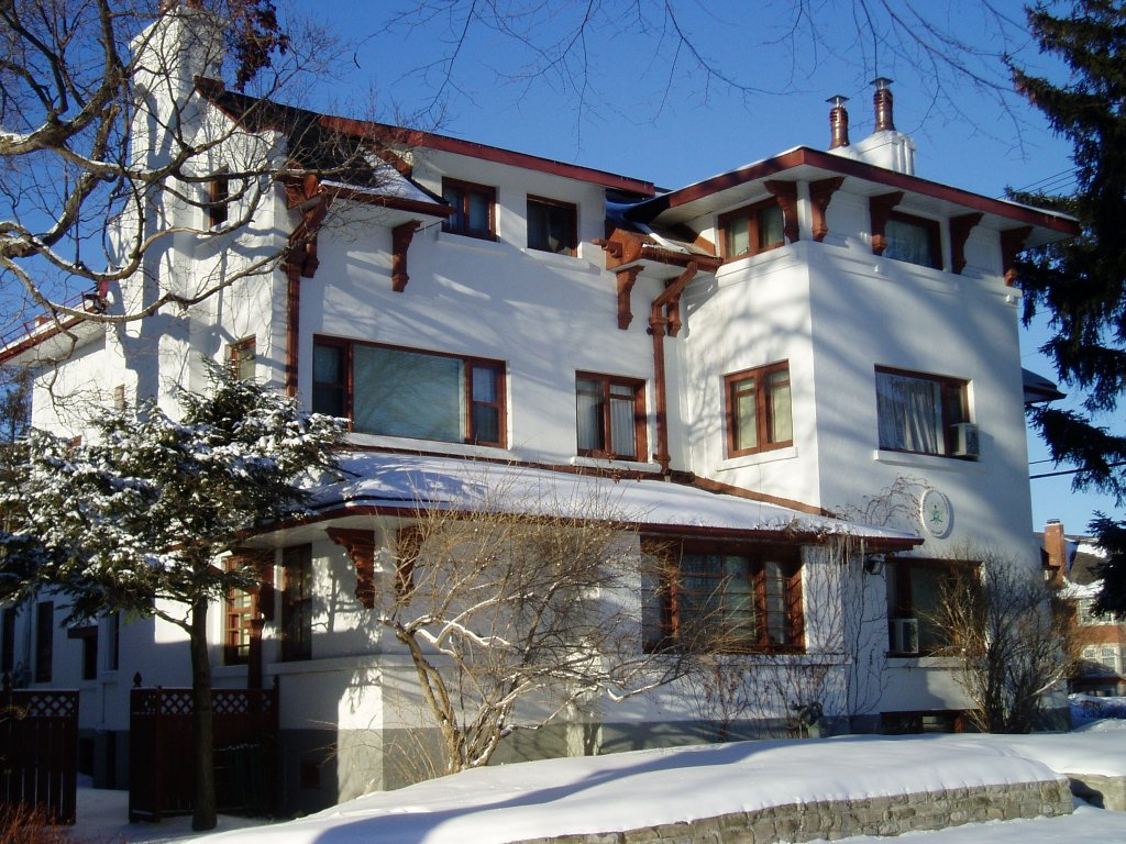 Embassy of Ghana in Ottawa, Canada